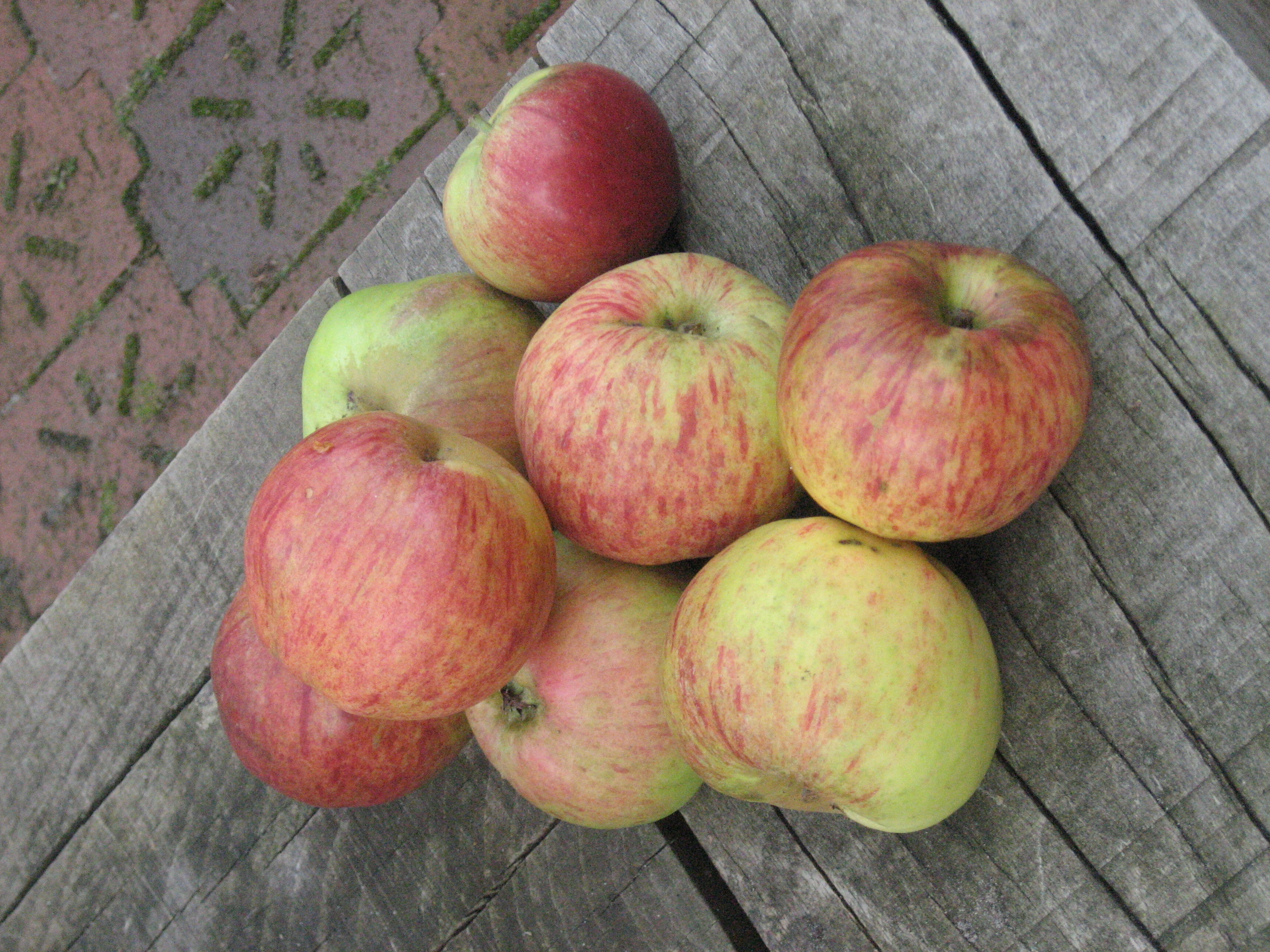 Gravensteiner apples